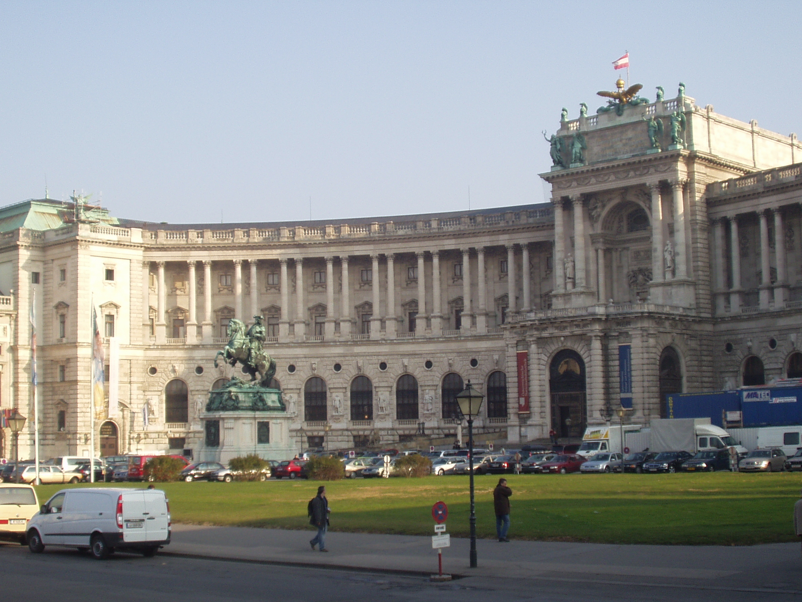 Österreichische Nationalbibliothek, Heldenplatz. Own photo. Taken 9/11/2005.